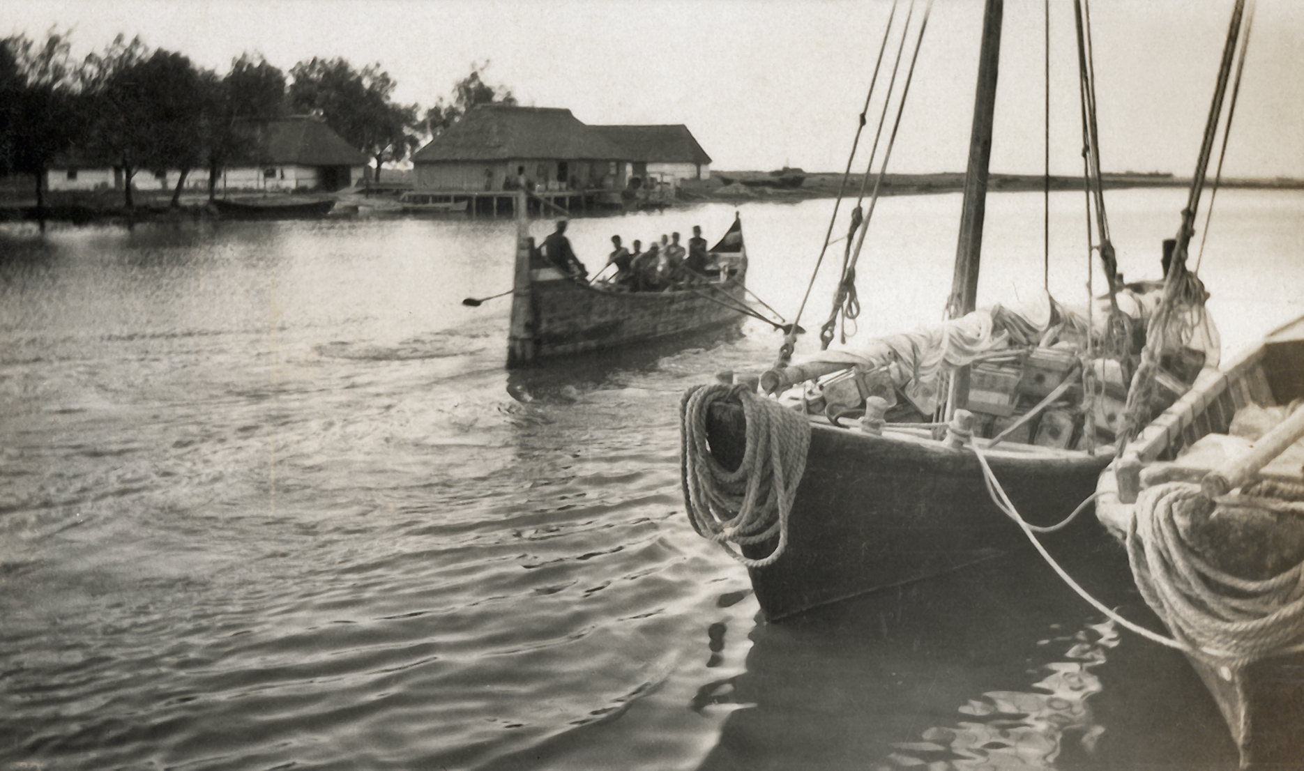 Babolsar (Iran) in the 1930's